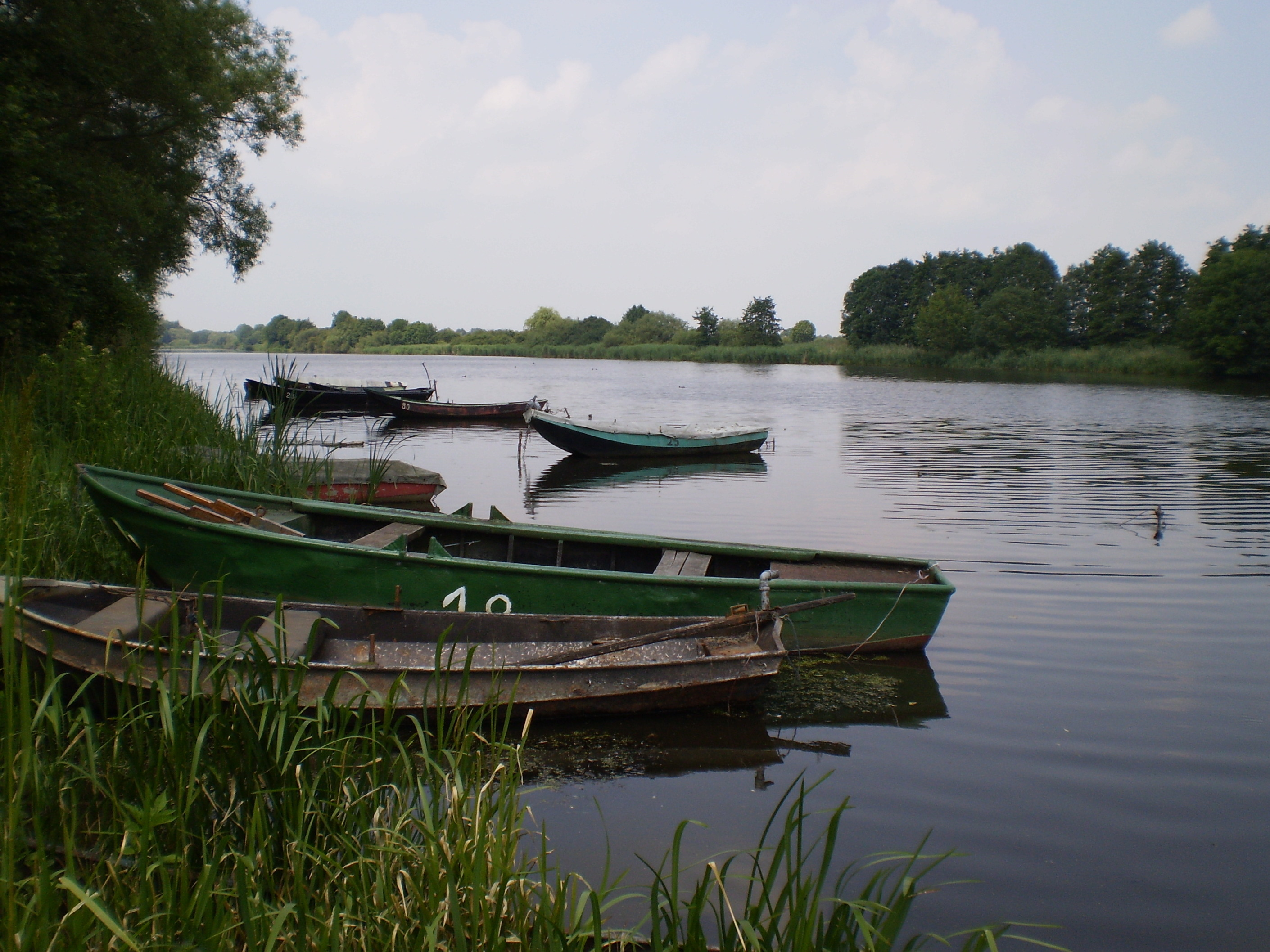 Wyler Meer/Wijlermeer (German-Dutch), taken from the German side